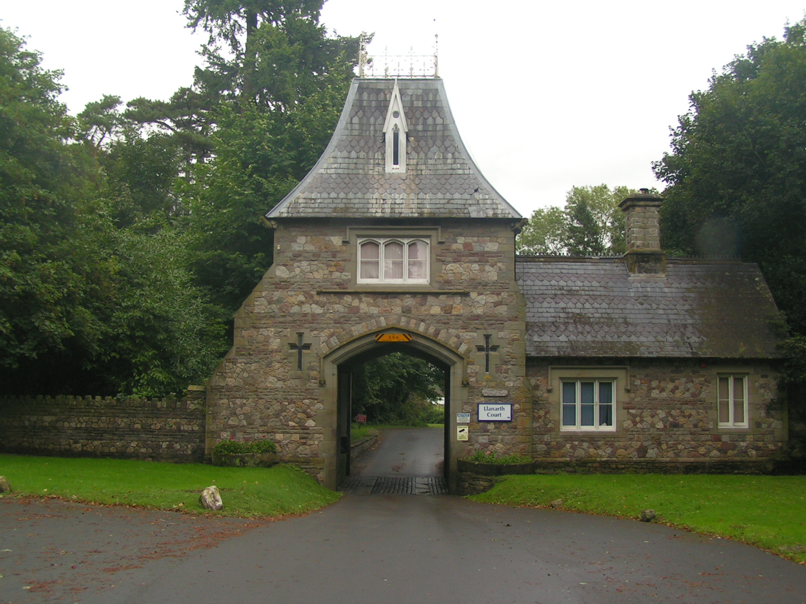 The gatehouse of Llanarth Court